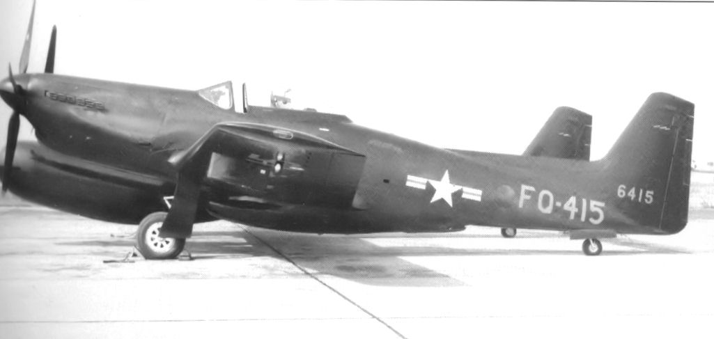 317th Fighter-All Weather Squadron North American P-82F Twin Mustang 46-415 1948 Hamilton AFB, California